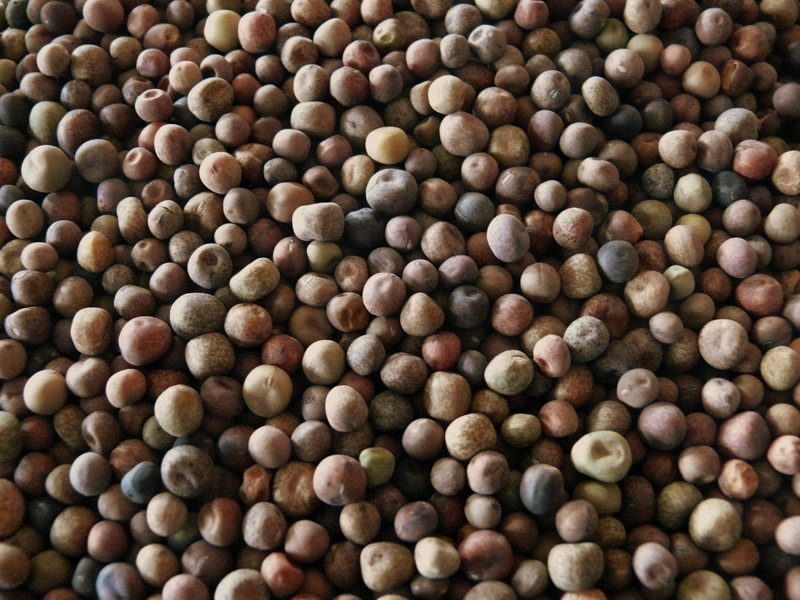 Wild Peas (roveja) from Piano Castelluccio (Italy).